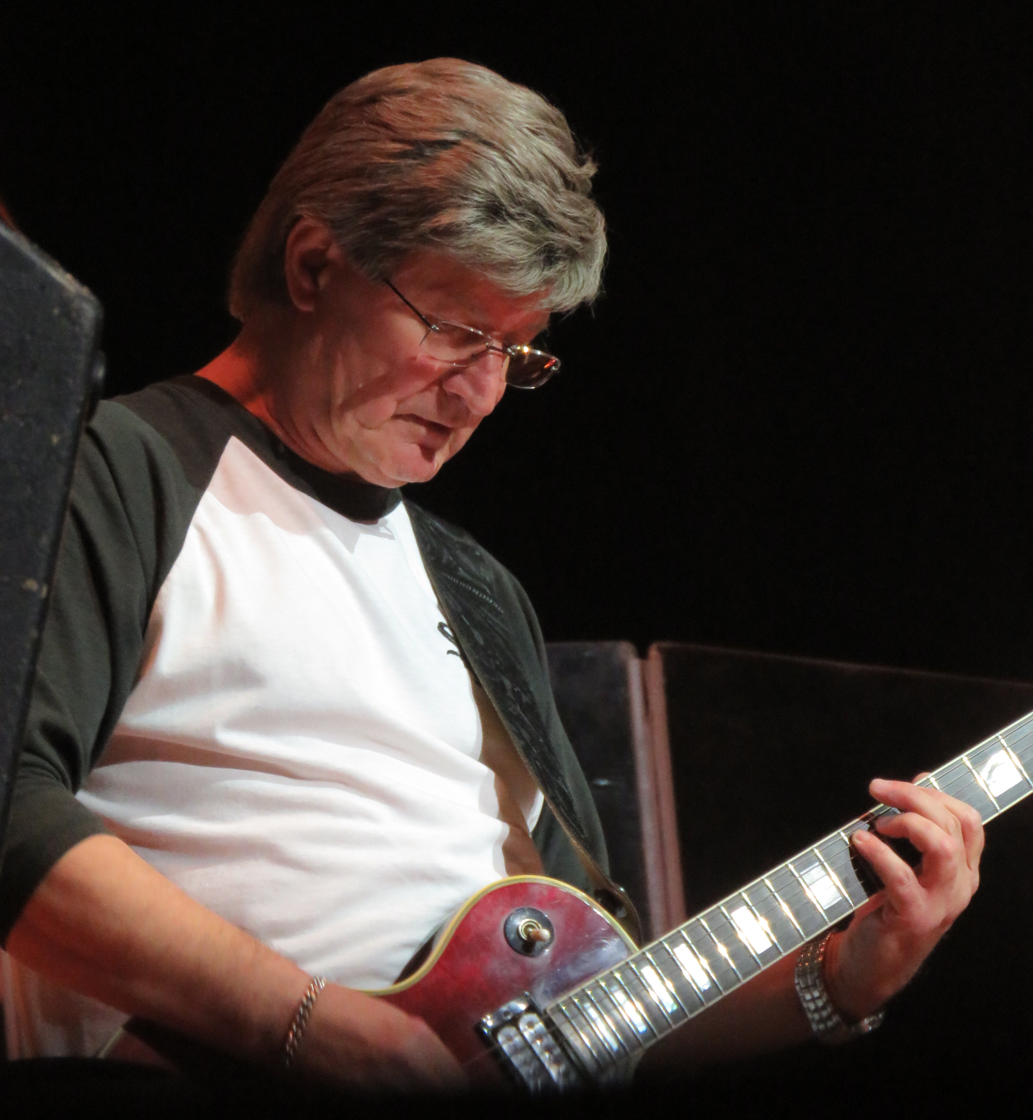 Jerzy Tarsiński (b. December 21, 1943 in Cracow, Poland) – Polish rock musician, guitarist of Skaldowie. He lives in Cracow, Poland